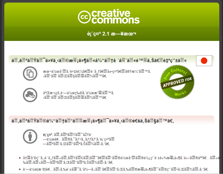 An example of Mojibake. Learn more Mojibake. This is based on text and graphics available under CC-by and thus is permitted on Wikimedia Commons.